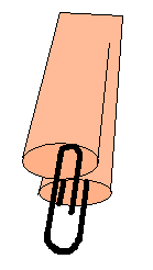 A Cartesian diver made of drinking straw and a paper clip